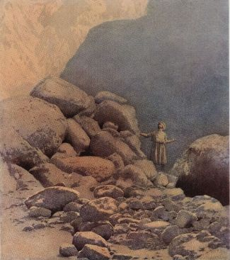 Title: The Arabian Nights: Their Best-known Tales Author: Unknown Editor: Kate Douglas Wiggin, Nora A. Smith Illustrator: Maxfield Parrish